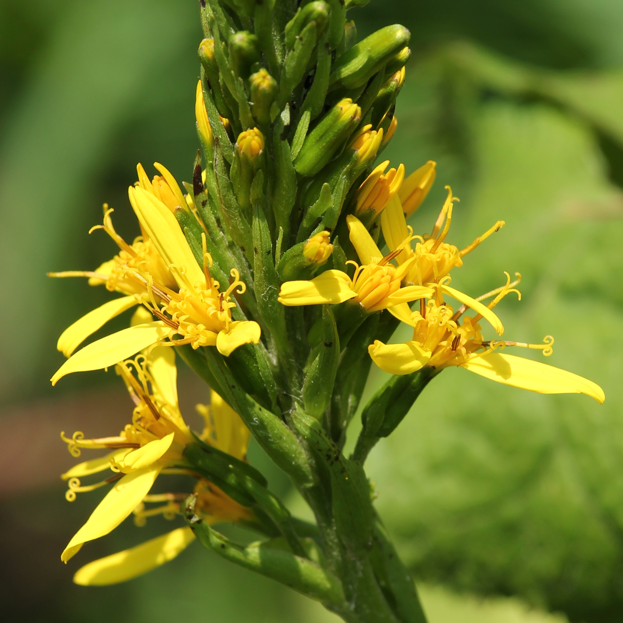 Flower of Ligularia stenocephala , in Mount Ibuki, Maibara, Shiga prefecture, Japan.